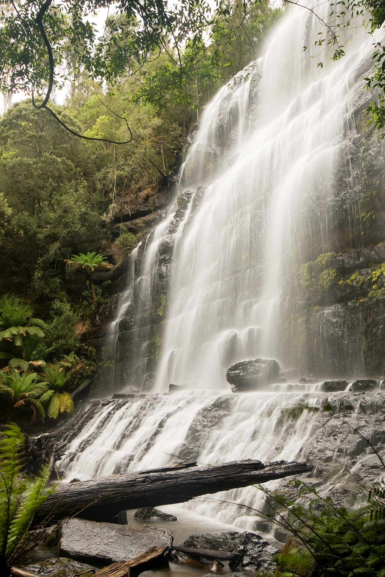 Upper Tier Of Russell Falls, Mount Field National Park, Tasmania, Australia